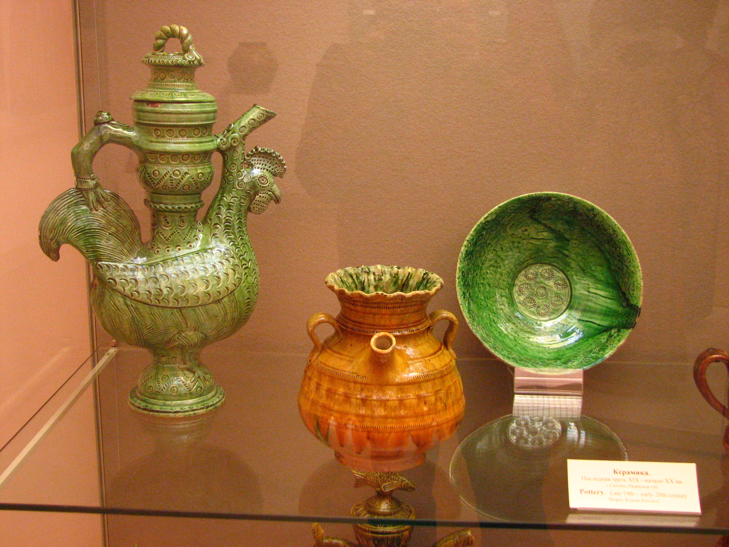 Russian Museum, a collection of folk art. Skopin ceramics last third of the XIX - early XX centuries. Vessel in the form of a rooster, receptacle for handwashing, bowl. Skopin, Ryazan region.